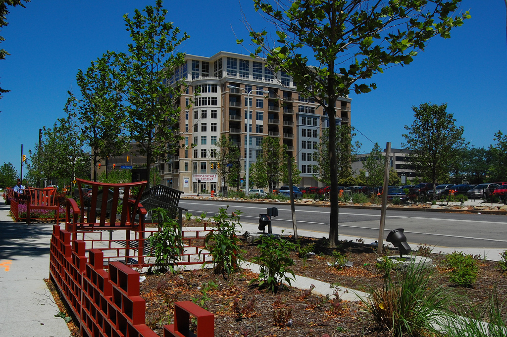 Picture of the Avenue District taken June 2010.